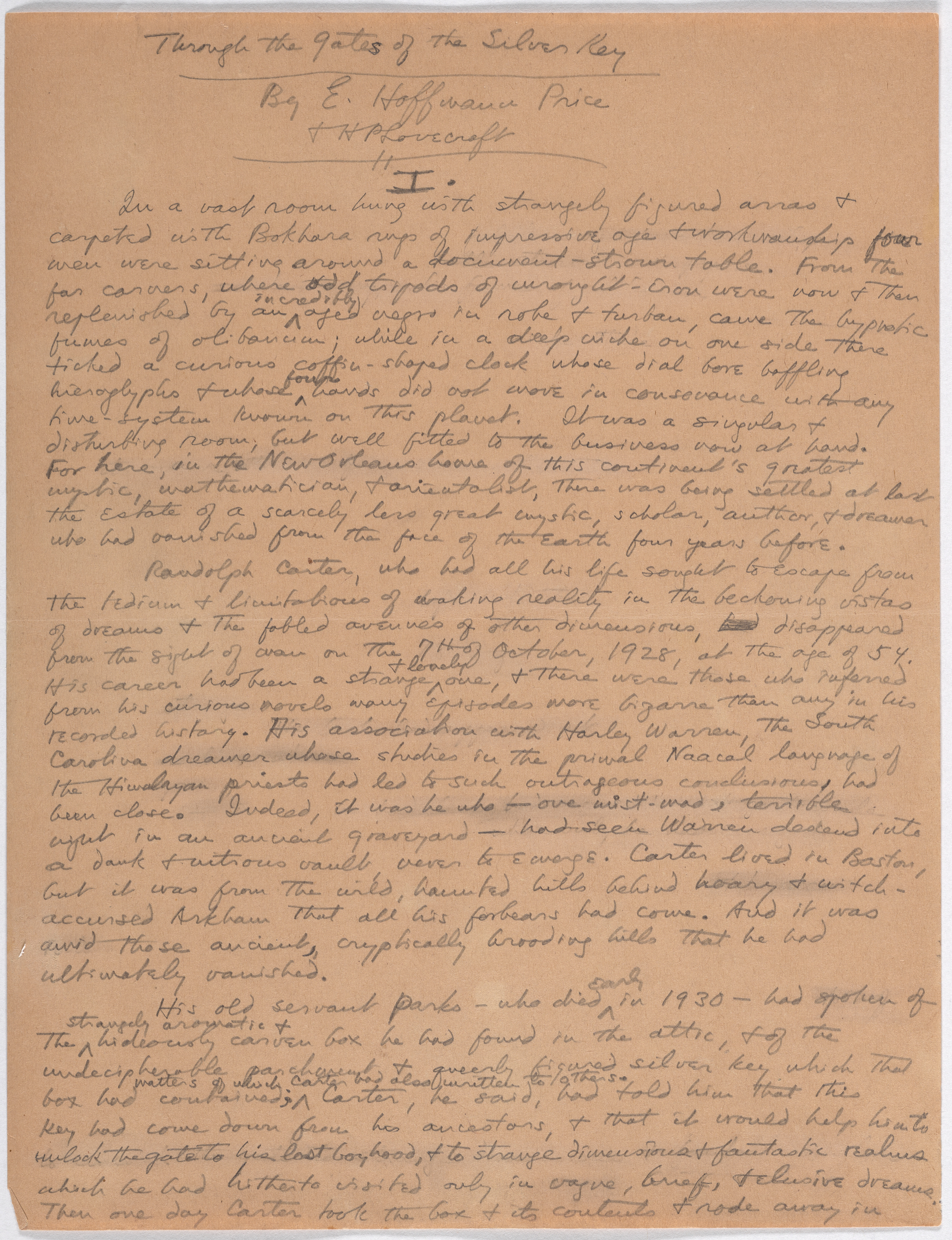 First page of the manuscript Through the Gates of the Silver Key.